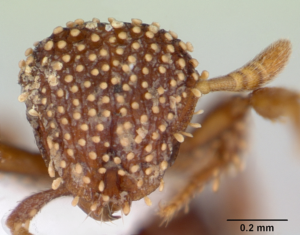 Head view of ant Calyptomyrmex kaurus specimen casent0417155.